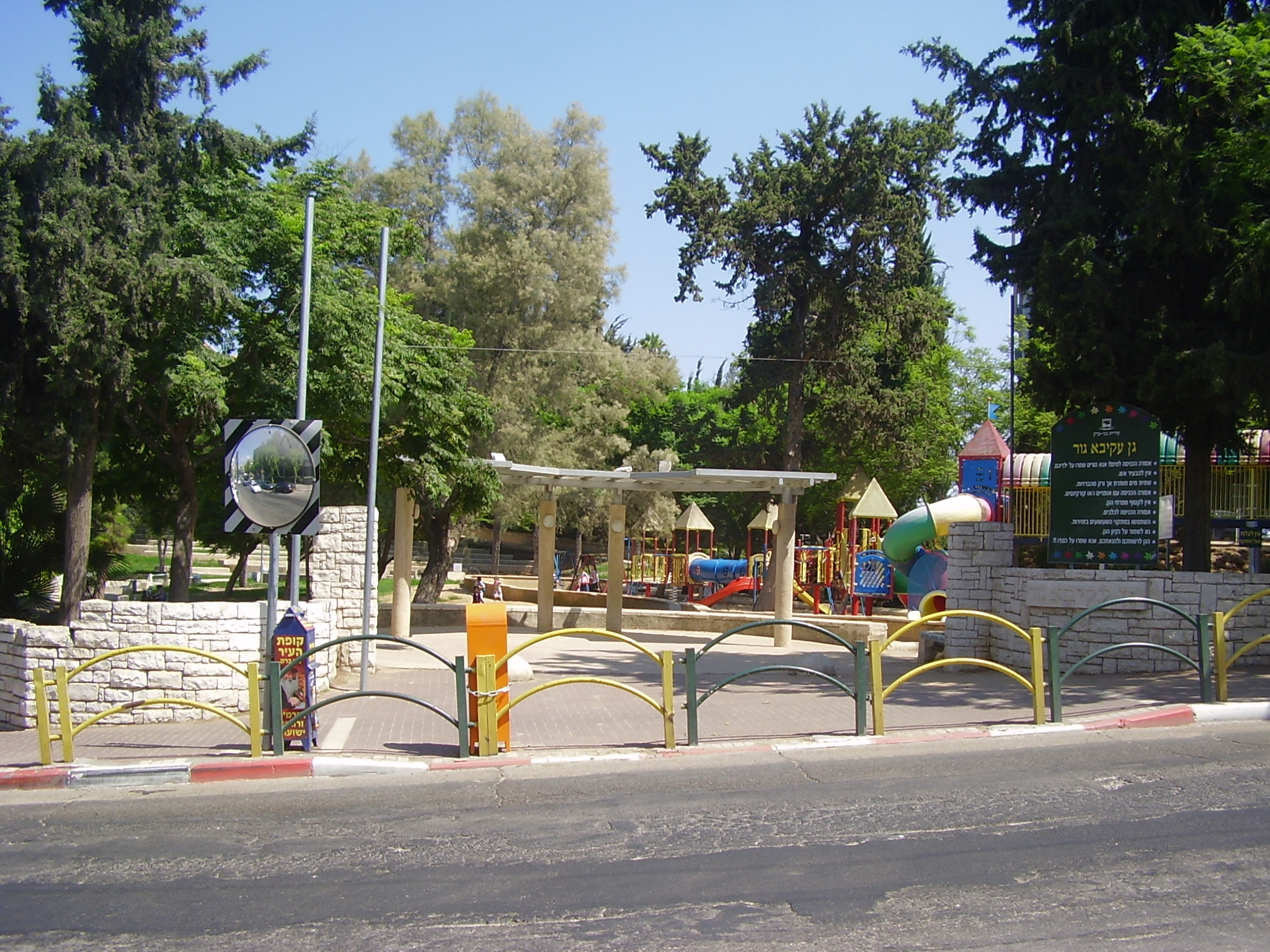 akiva gur garden in bnei brak גן עקיבא גור בבני ברק